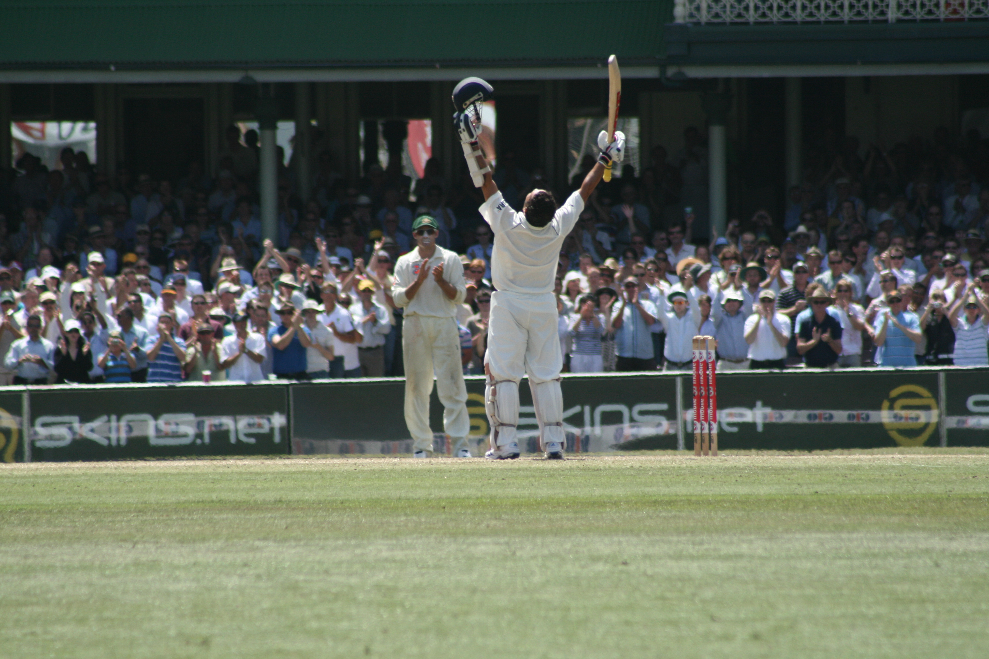 Sachin Tendulkar celebrates his century against Australia, 4th Jan 2008